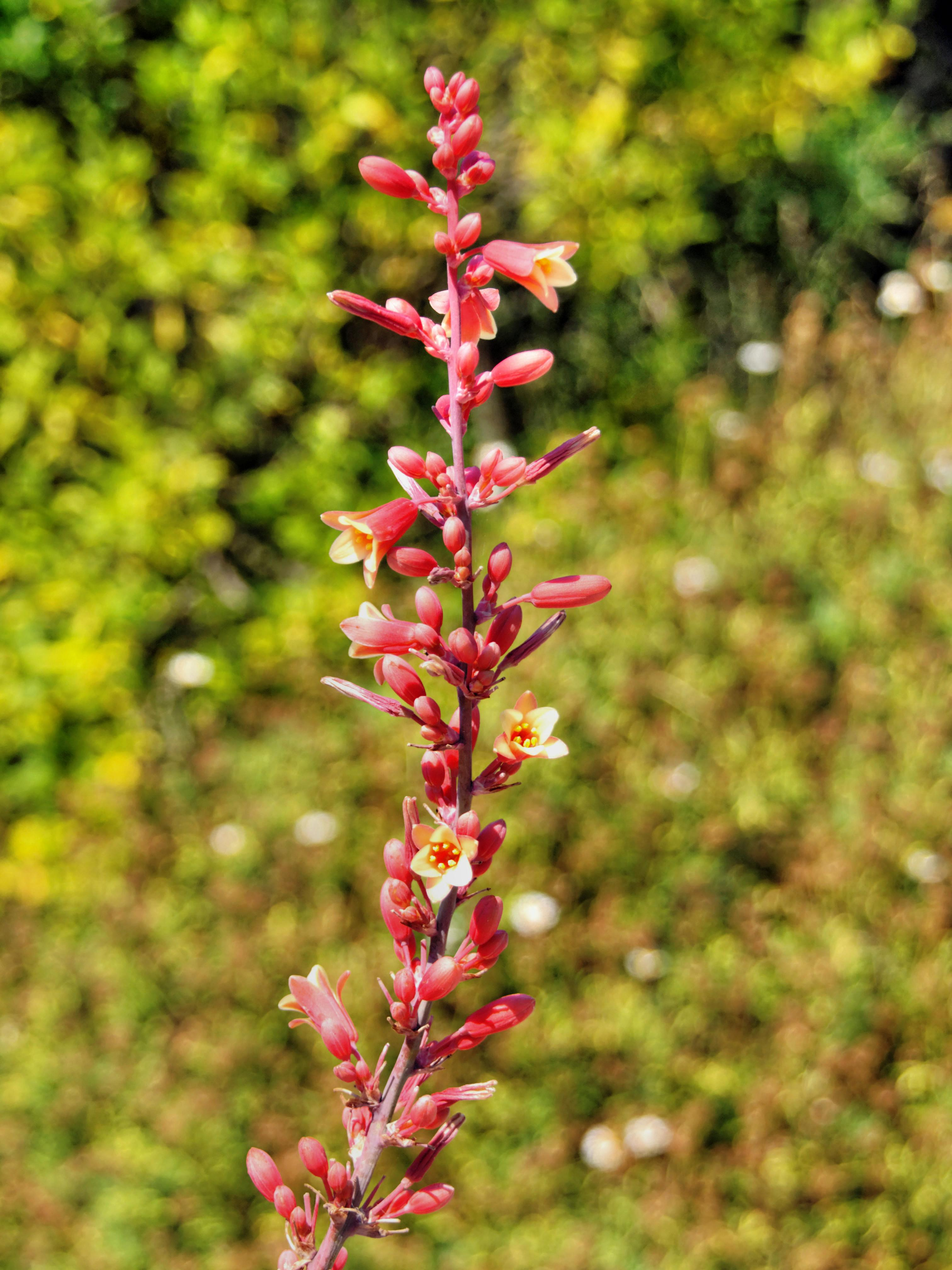 Photo of flowers of Hesperaloe parviflora